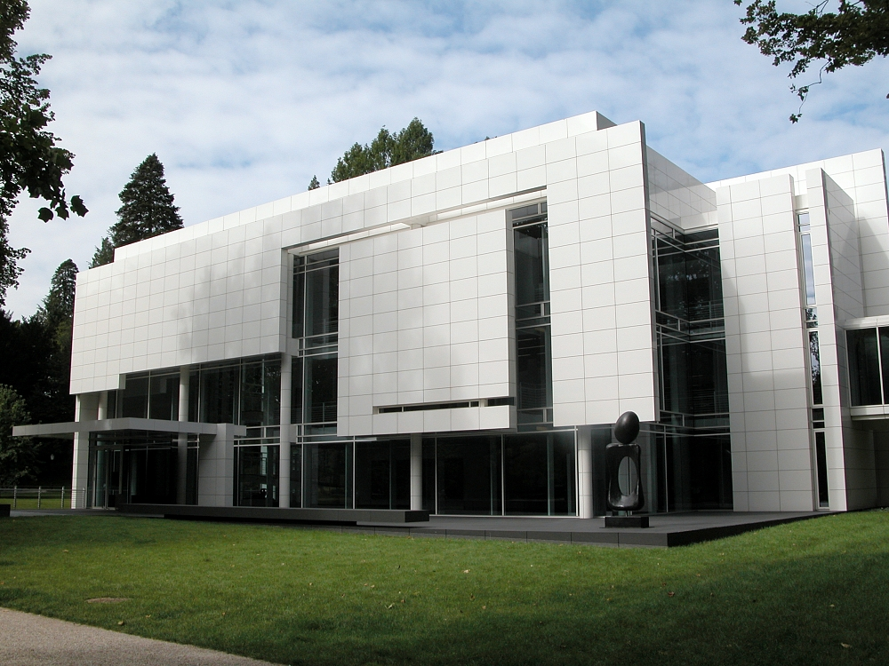 Museum Frieder Burda, Baden-Baden, Germany